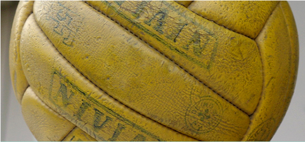 Nivia Sports Football in 1950